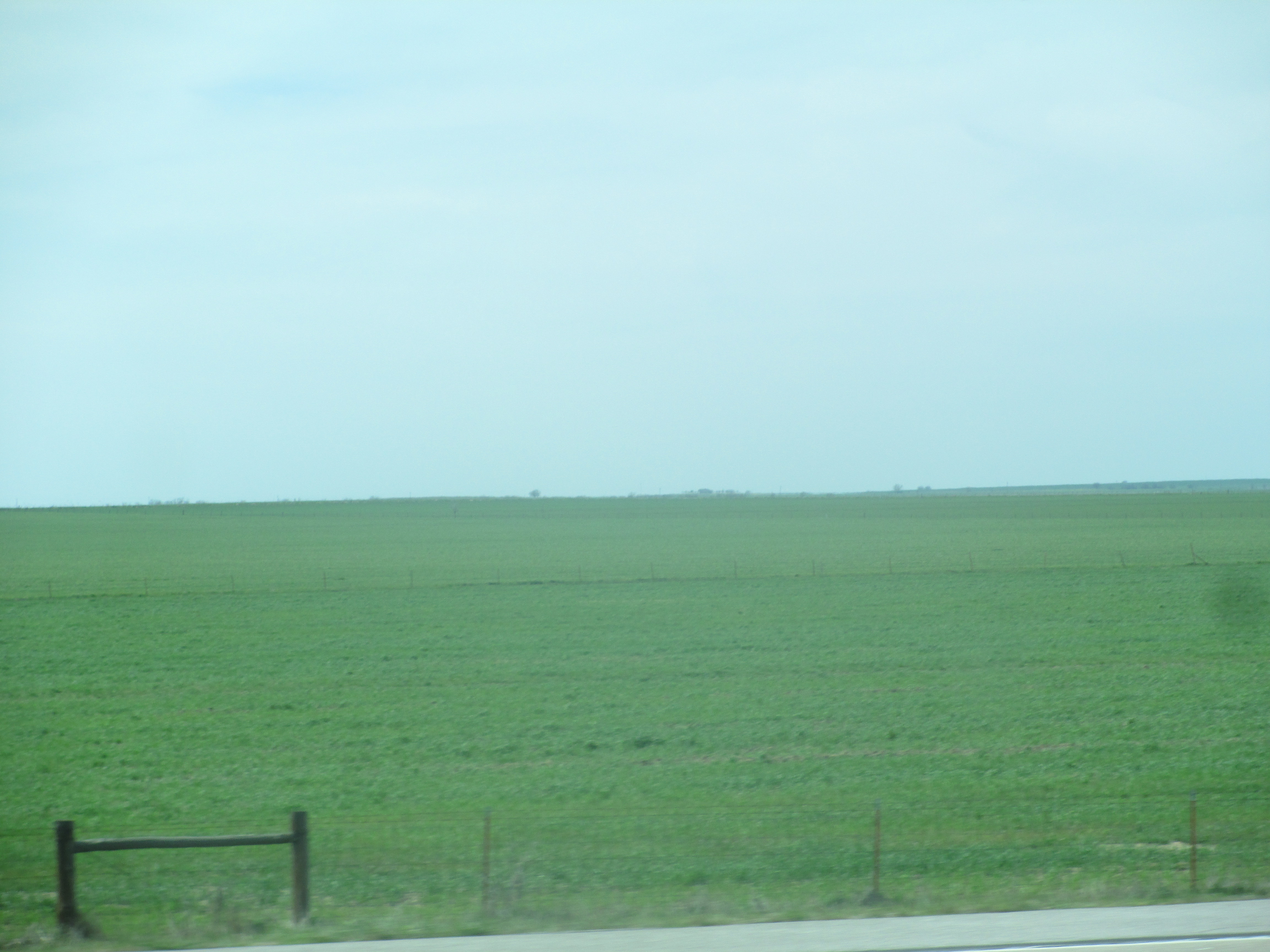 I took photo of southern Great Plains in southern Oklahoma, with Canon camera, April 6, 2013. Billy Hathorn (talk) 19:55, 9 April 2013 (UTC)